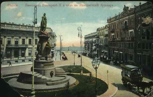 Monument to the founders of Odessa. Postcard of the early twentieth century